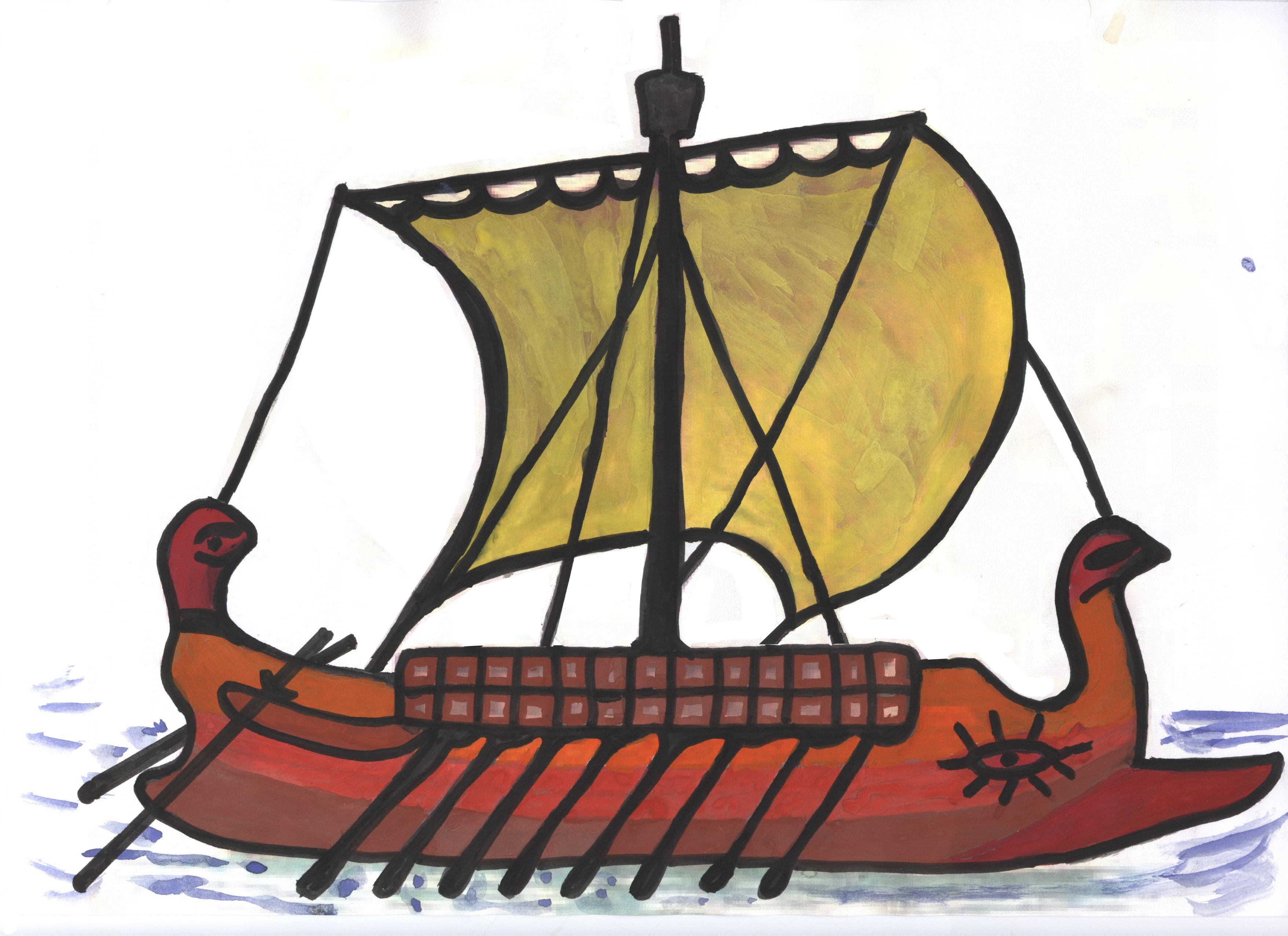 Etruscan ship VI BCE